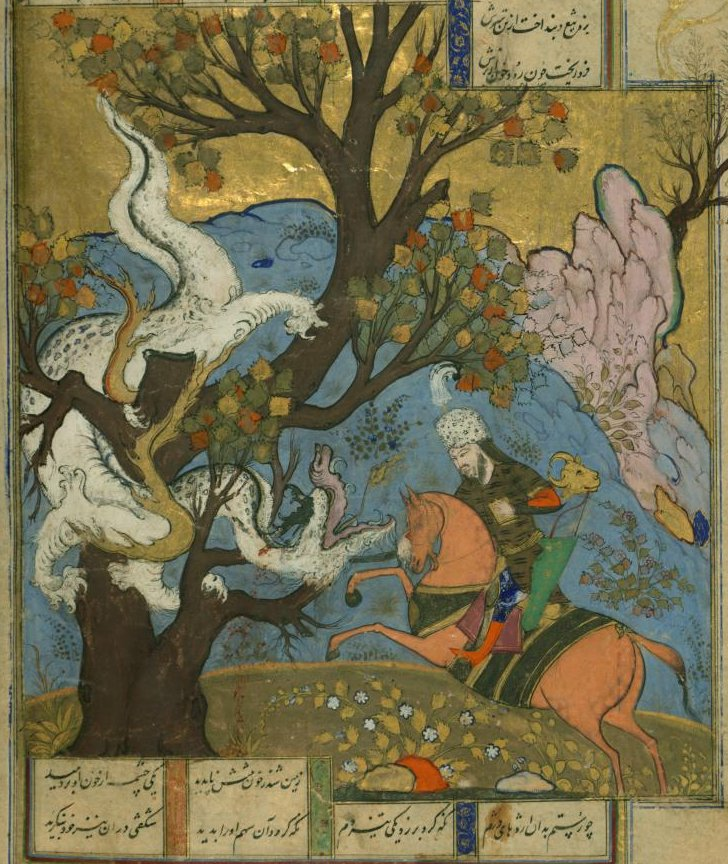 Rustam kills a dragon. Illustration of the Shahnameh.